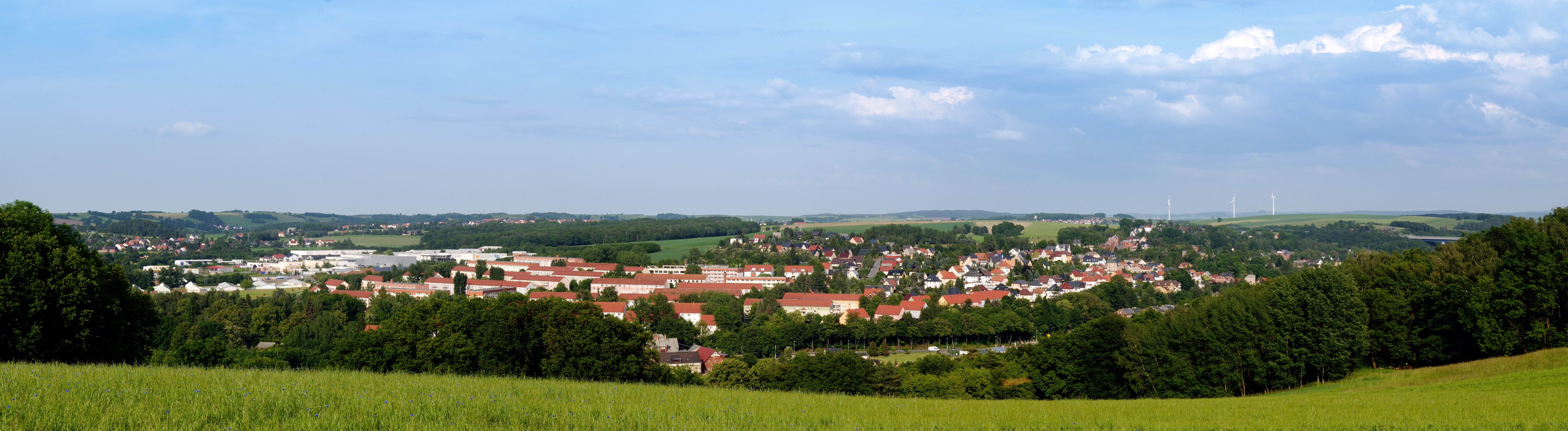 This image shows a panoramic view of Wilkau-Haßlau, Saxony, Germany. It is a three segment panoramic image.